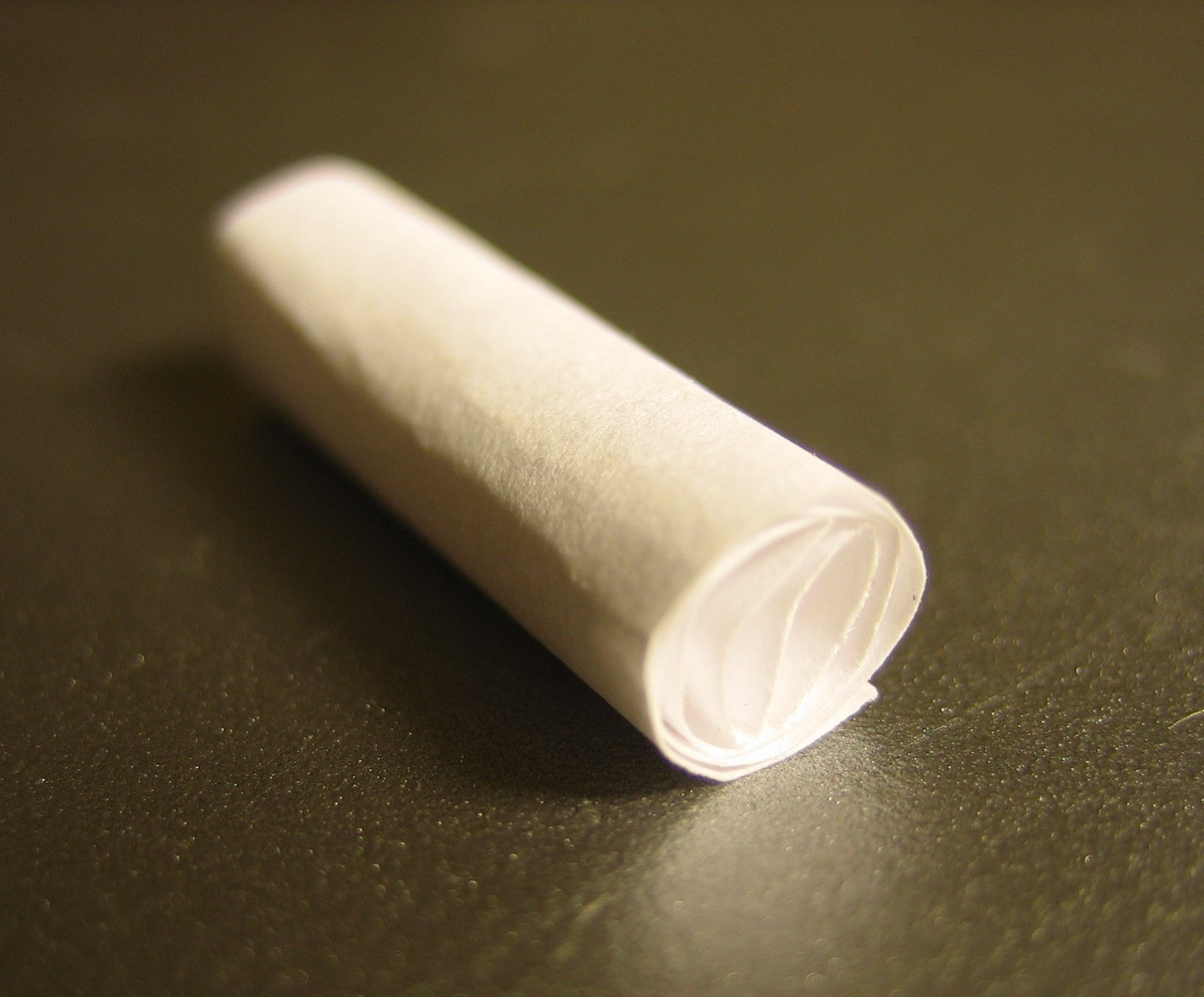 Contrary to the misleading file name, this is not a roach. It's a selfmade tip made of cardboard paper to mostly be used in Joints. A roach is the leftover of a smoked joint, thus including the tip and a bit of smoking material (eg. marijuana, tobacco) held by the rest of rolling paper that has been burnt down. Erik Fenderson, 20 november 2005.